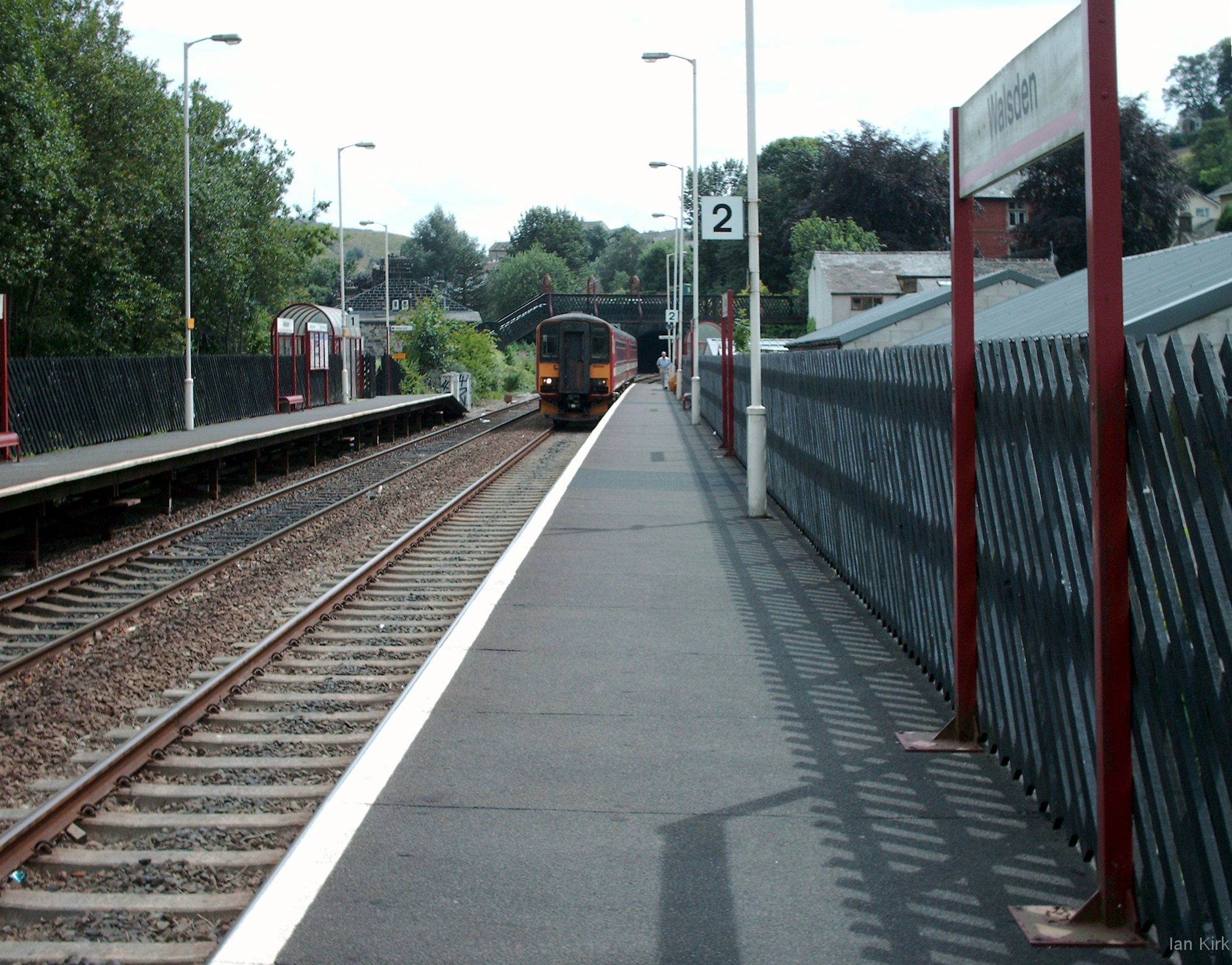 Walsden railway station, West Yorkshire, England. Diesel Multiple Unit DMU 155342 arriving.